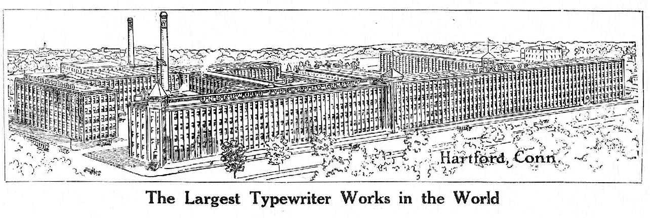 View of the Underwood typewriter factory in Hartford, CT circa 1911. Taken from a period newspaper advertisement.